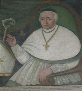 Portrait of Alessandro Tommasini, Bishop of Oppido-Gerace (18th-19th century)